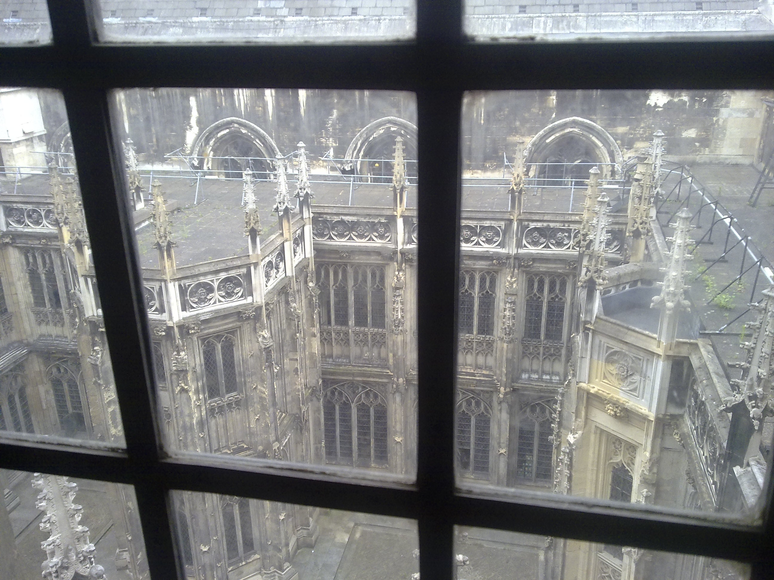 An interior courtyard adjacent to the House of Commons and St Stephens Chapel within the Palace of Westminster.